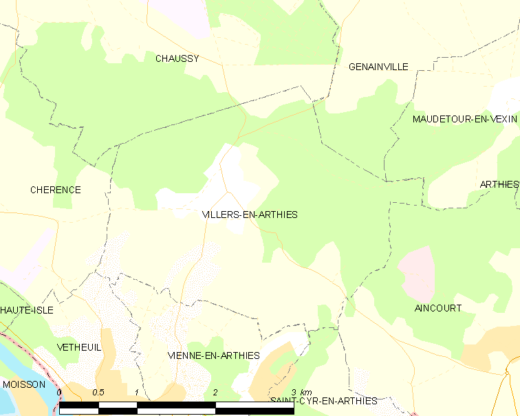 Map of French municipality Villers-en-Arthies